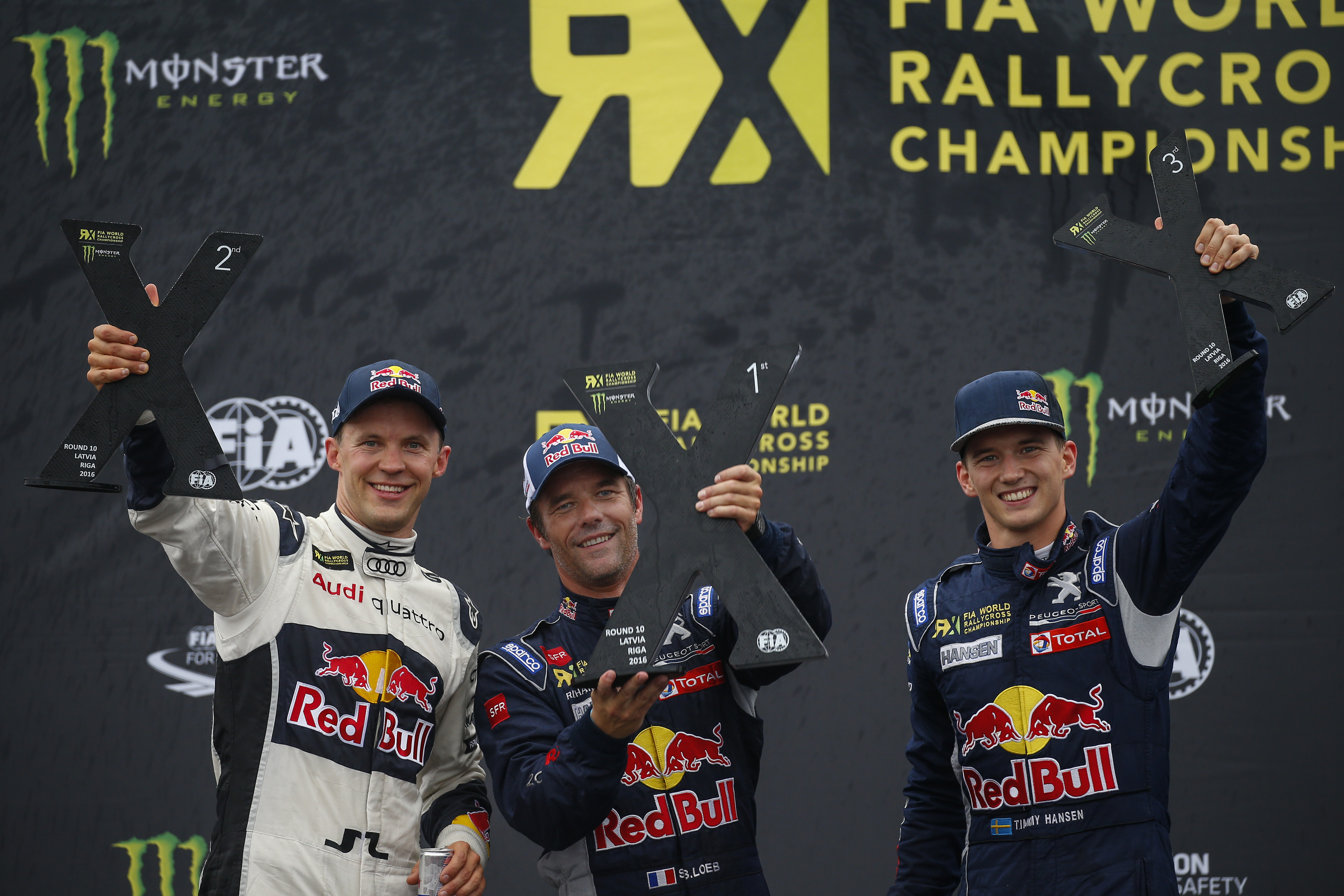 2016 FIA World RX Rallycross Championship / Round 10, Riga, Latvia, October 1-2 2016 // Worldwide Copyright:Tony Welam/EKS/McKlein